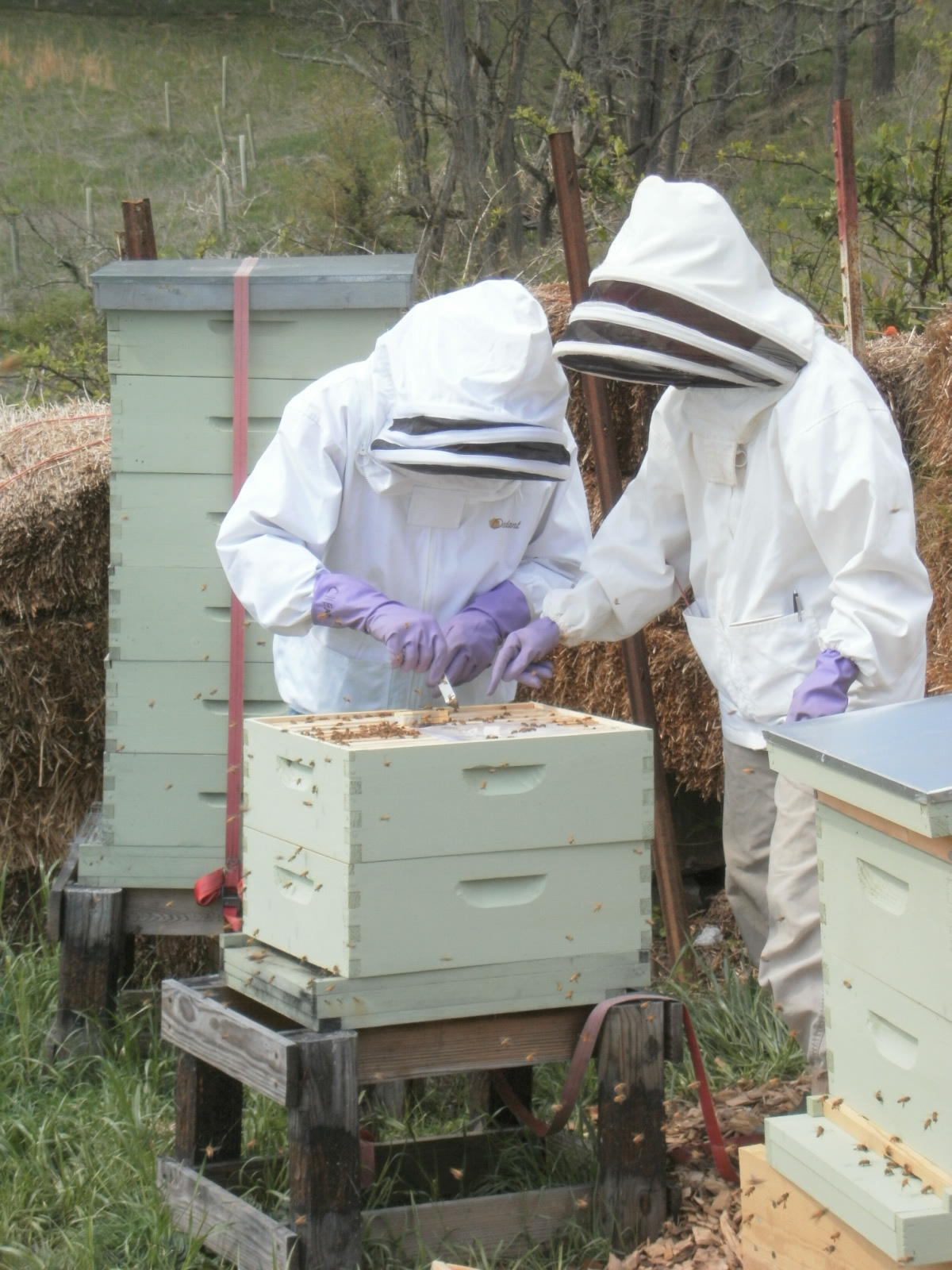 Removing the Queen cage from new hive.